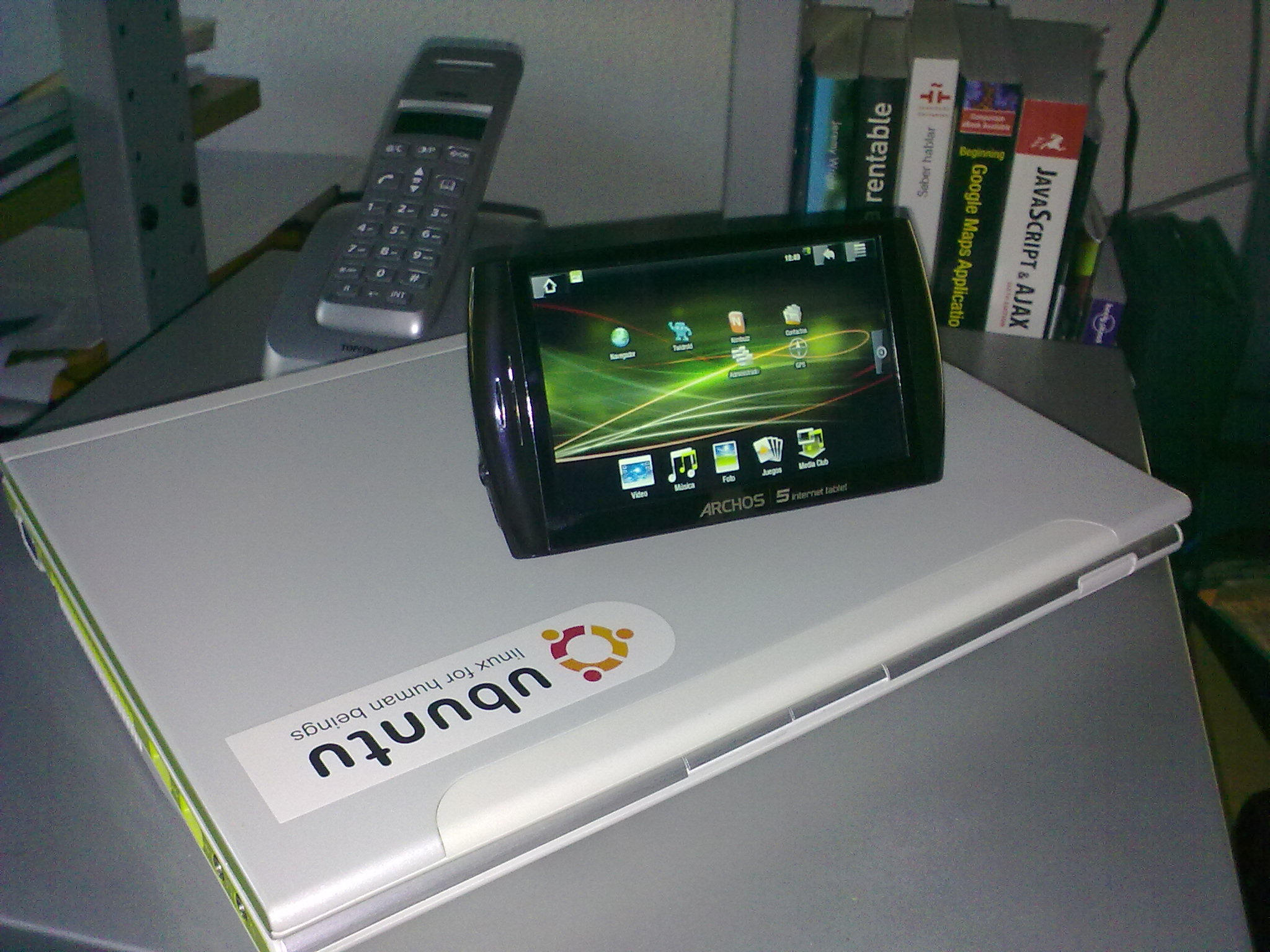 Archos 5 Internet tablet